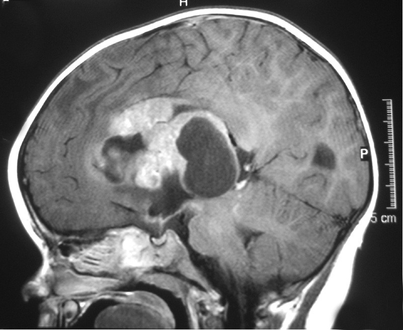 Magnetic Resonance Image of a supratentorial atypical teratoid/rhabdoid tumor (ATRT) in a young child